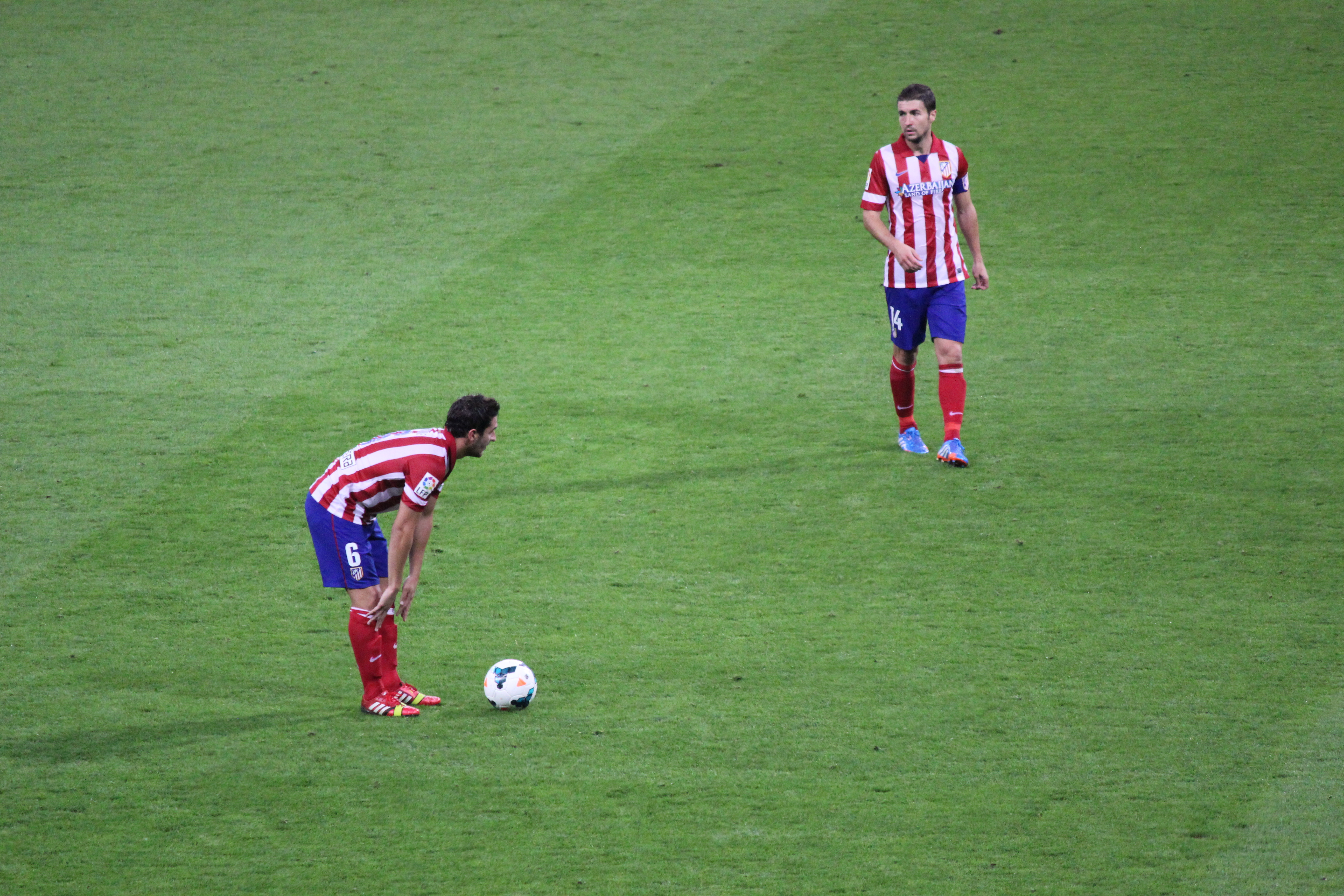 Real Madrid vs. Atlético Madrid 28 September 2013.